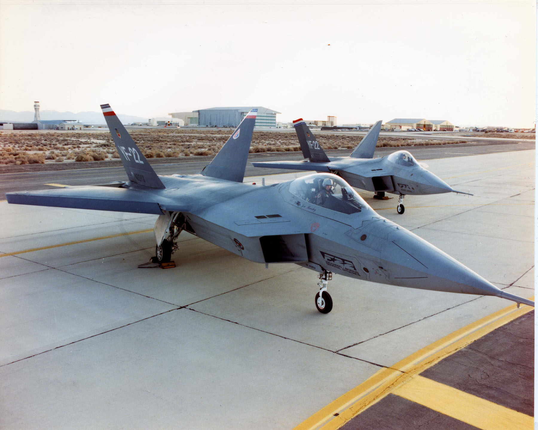 Both Lockheed-Boeing-General Dynamics YF-22s. (U.S. Air Force photo).